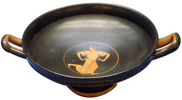 Dancing woman with two crotales. Tondo of an Attic red-figure kylix, 510–500 BC. From Capua.